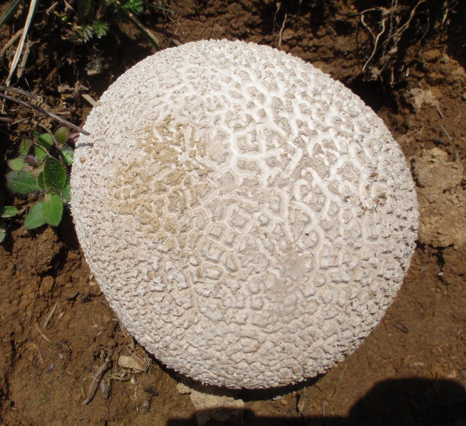 The puffball mushroom Handkea utriformis var. utriformis (Bull.) Kreisel. Photographed in Menekse Yayal Kocaeli, Turkey. "Notes: at 1000m elevation, border of beech forest"